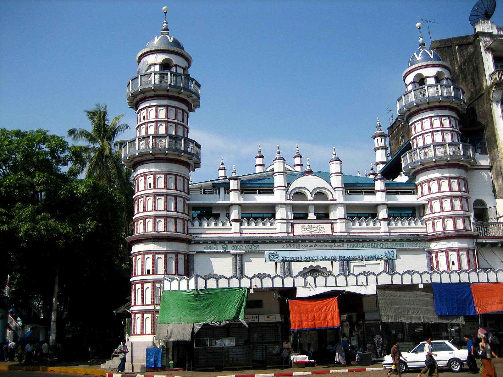 Bengali Sunni Jameh Mosque in Yangon, Myanmar (Rangoon, Burma), across from Sule Pagodaမြန်မာဘာသာ: ရန်ကုန်မြို့ရှိ ဘန်ဂါလီစူနီဈာမေဗလီဝတ်ကျောင်းတော် (ဆူးလေးဘုရားမျက်နှာချင်းဆိုင်